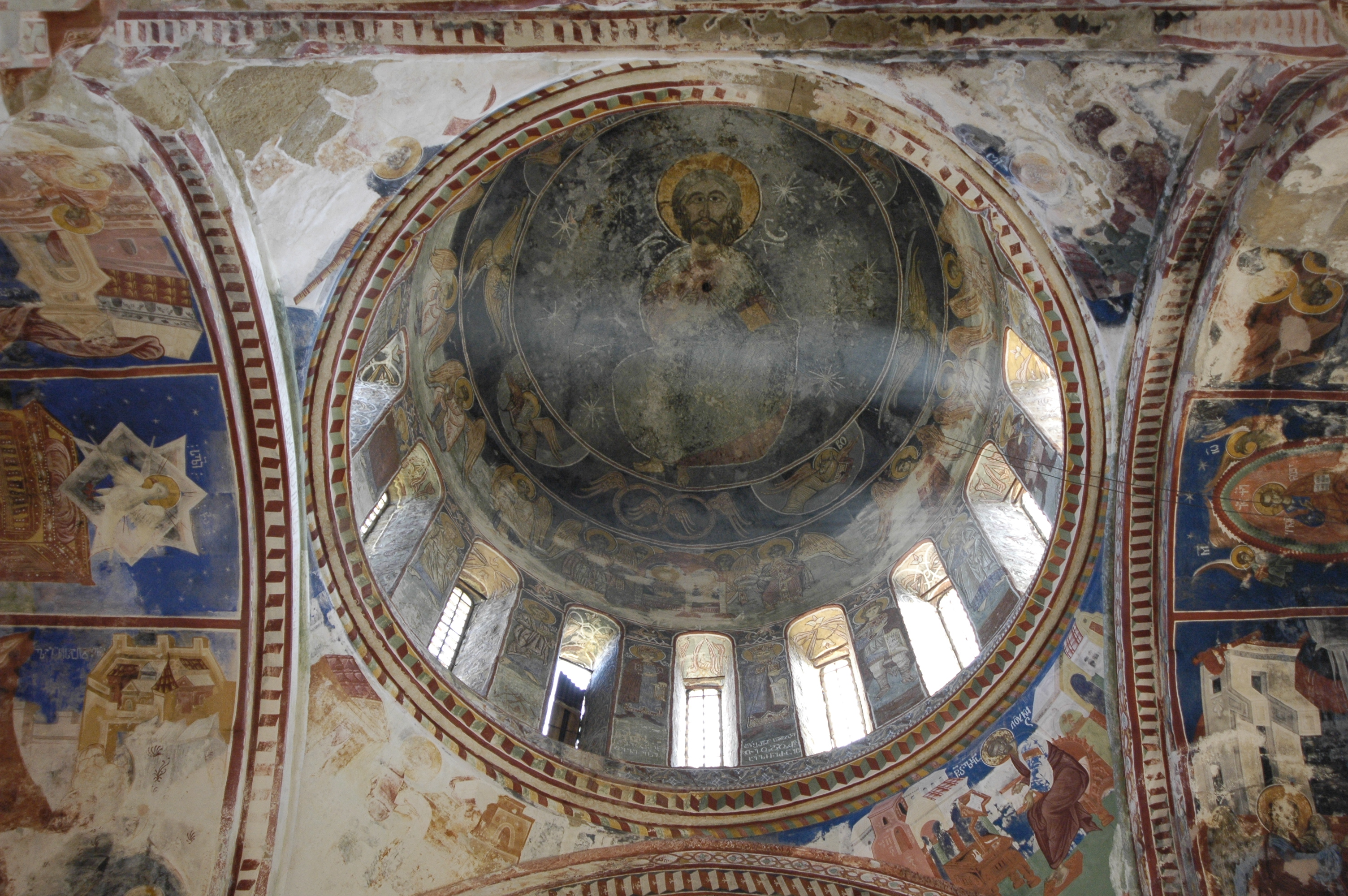 Mural painting of Christ at the central dome of the church of Virgin Mary the Blessed, Gelati monastery, XII century. Mural painting of Christ Pantocrator at the central dome of the church of Virgin Mary the Blessed at Gelati monastery, near Kutaisi, Georgia.